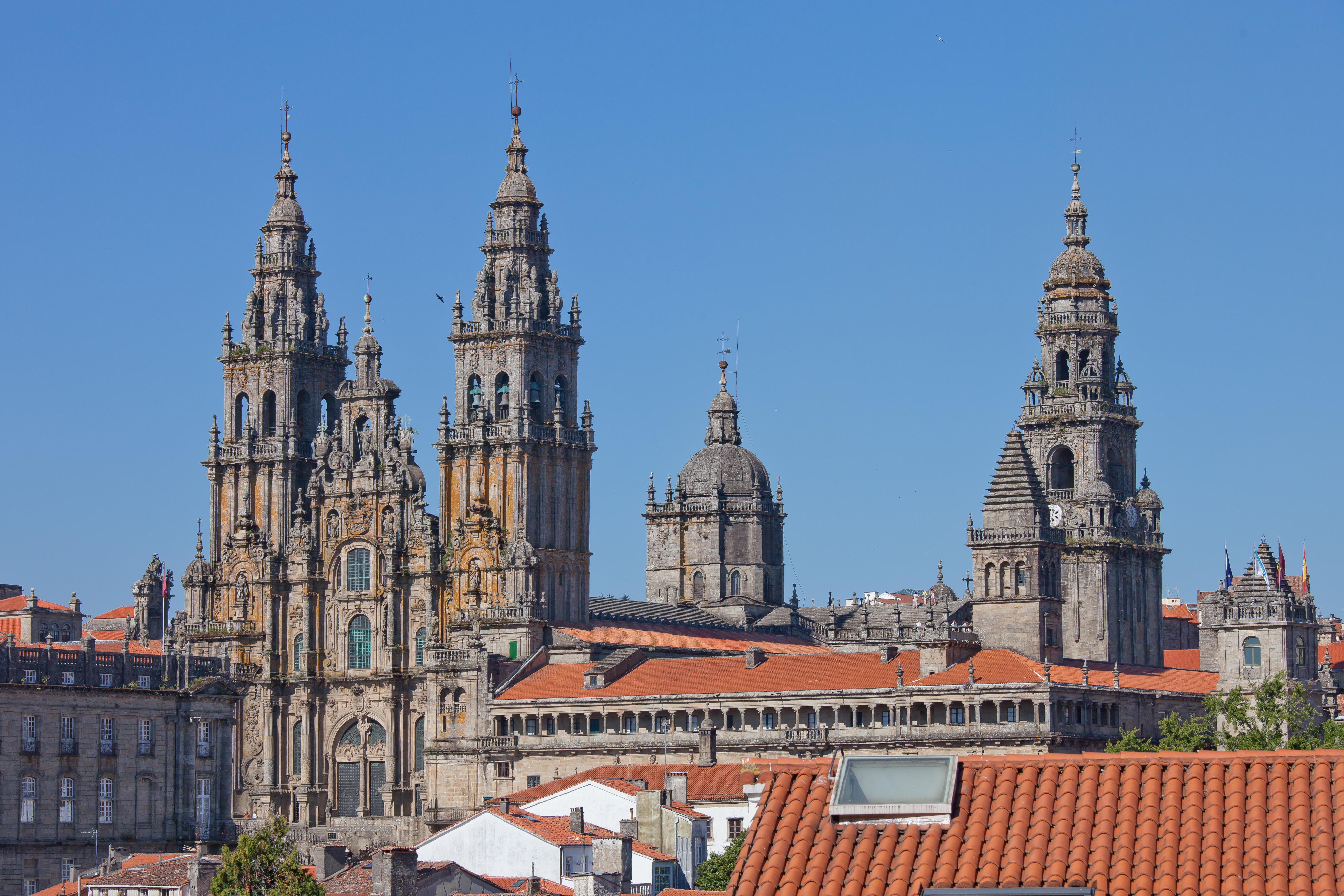 Cathedral of Santiago de Compostela, Santiago de Compostela, Galicia.